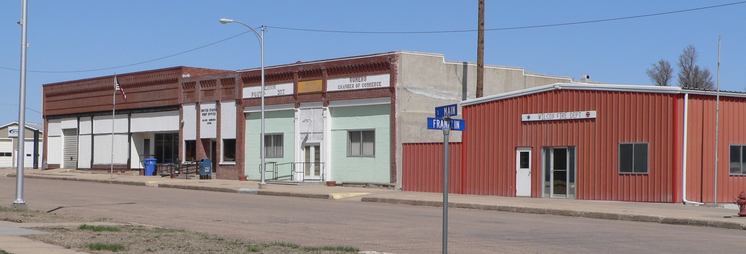 Downtown Wilcox, Nebraska, looking northeast from the corner of Main and Franklin Streets.